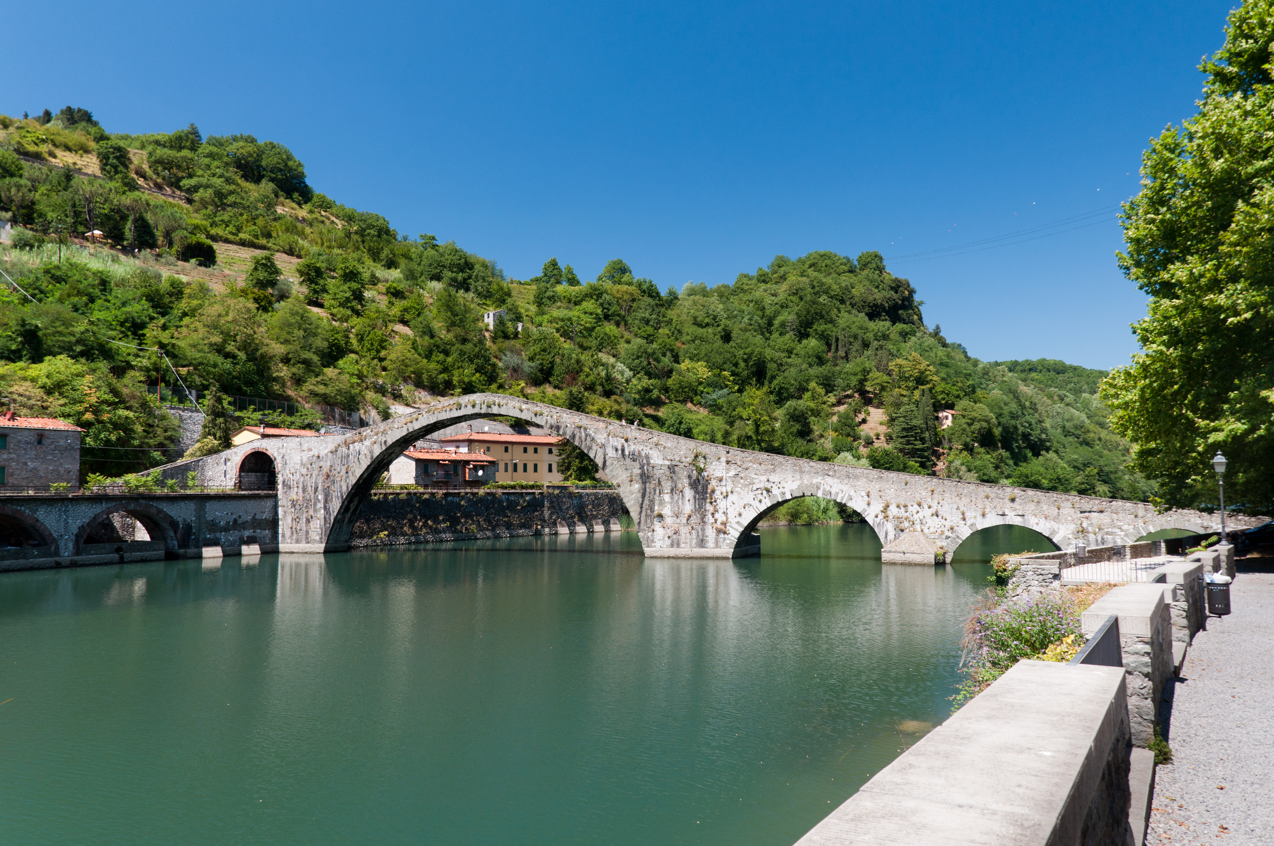 Ponte della Maddalena (Bridge of Mary Magdalene), also called Ponte del Diavolo (devil's bridge), a medieval bridge crossing Italian river Serchio